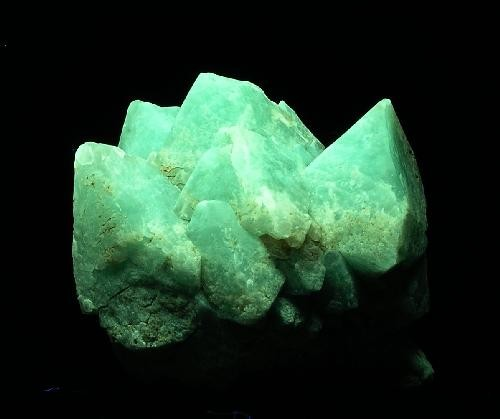 Powellite Locality: Nasik District, Maharashtra, India (Locality at ) Size: 3.3 x 3.3 x 2.5 cm. A sharp, fine cluster of lustrous blue-green Powellites up to 1.5 cm on edge. The color is very unusal, and quite attractive, likely caused by the presence of Celadonite inclusions. The fluorescence is superb. Ex. Charlie Key.